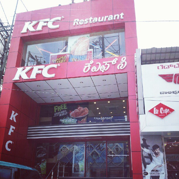 The first KFC outlet in India on Brigade Road, Bangalore.